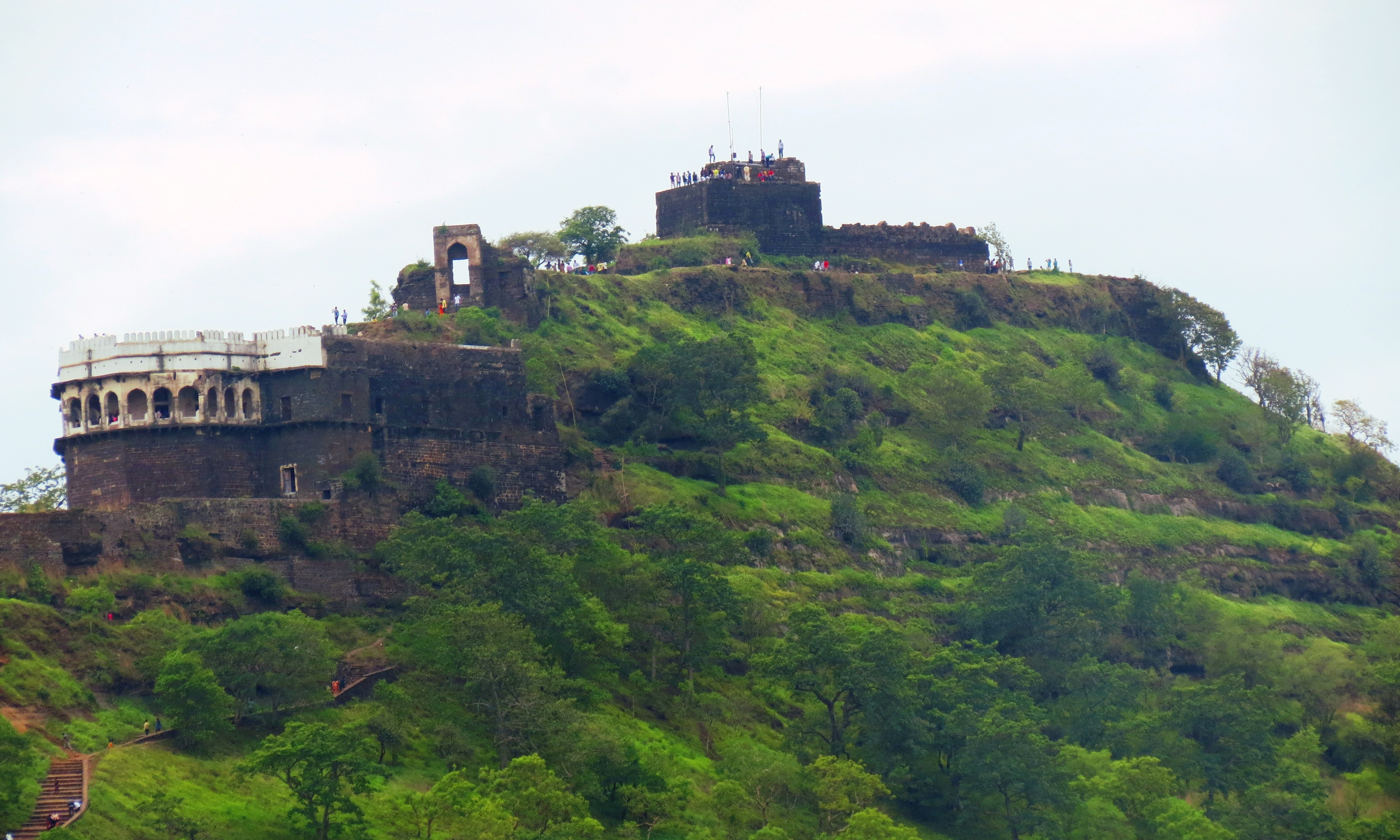 A view of Daulatabad Fort. The fort is oldest fort of Deccan and was originally known as Deogiri. The recorded hisotry dates back to 1187 A.D.